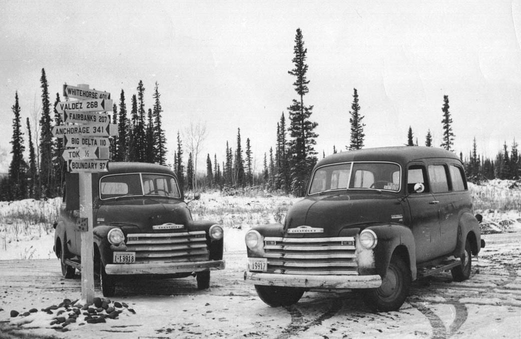 U.S. Fish and Wildlife Service Patrol Vehicles at Tok Cut-off on Alaska Highway. Tok Junction, Alaska. FWS keywords: ARLIS; Alaska U.S. Fish and Wildlife Service Source FWS-6668 Rights Public domain